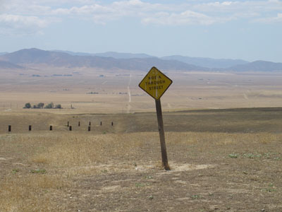 California Valley — Carrizo Plain. Located in San Luis Obispo County, central California. public domain June 20, 2005